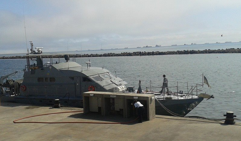 Namibian Navy Marlim Class craft